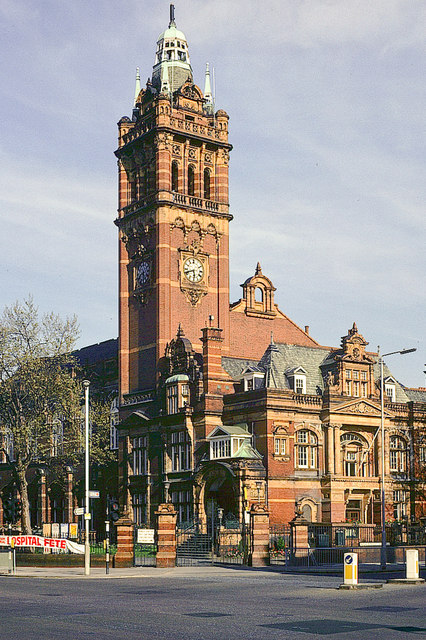 East Ham Town Hall Built 1901-14, by Cheers and Smith